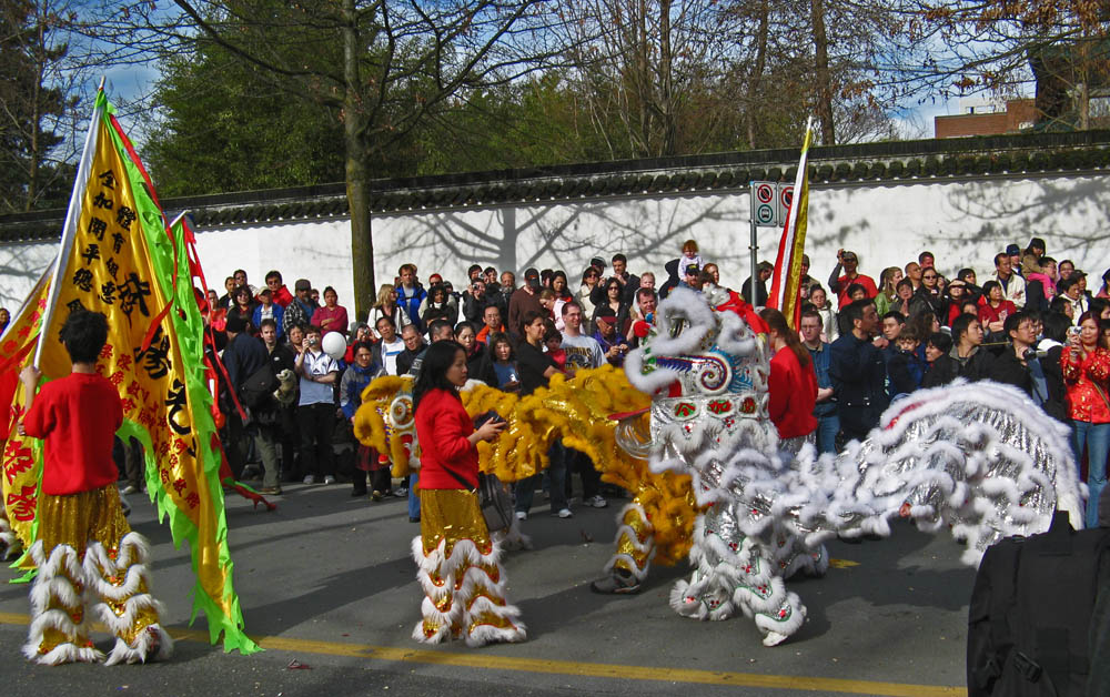 Chinese New Year parade, 2007, Vancouver, BC. The background is the wall of Dr. Sun-yat Sen Park.